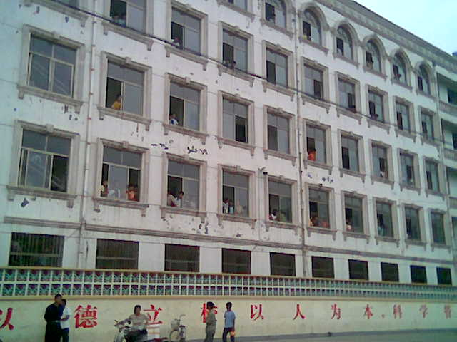 senior middle school